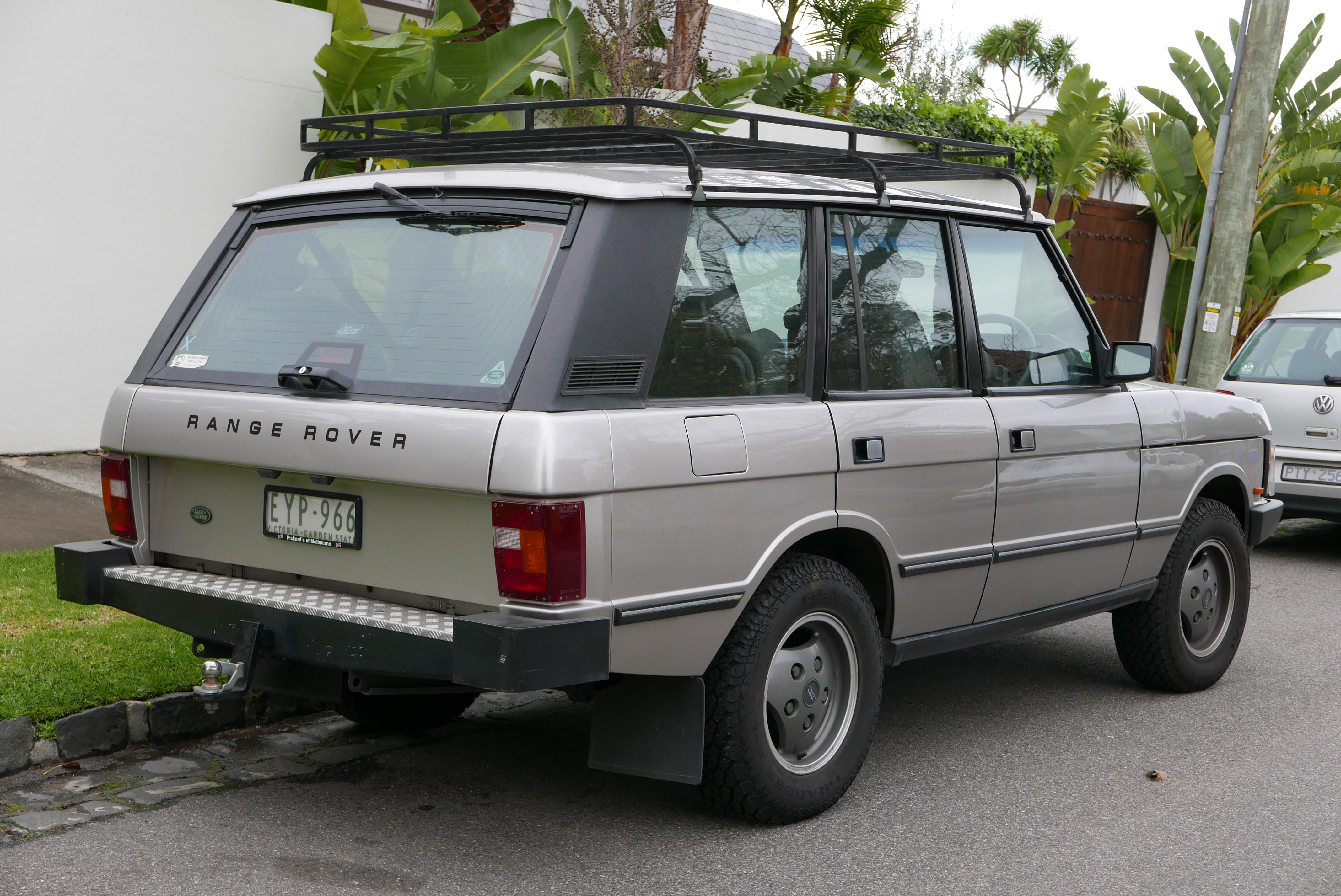 1992 Land Rover Range Rover County 5-door wagon. Photographed in Kew, Victoria, Australia. Vehicle registration enquiry results Jurisdiction Victoria Registration EYP966 Chassis code SALLHAMM7JA621051 Engine code 37D00819A Compliance date 1992-08 Year of manufacture 1992